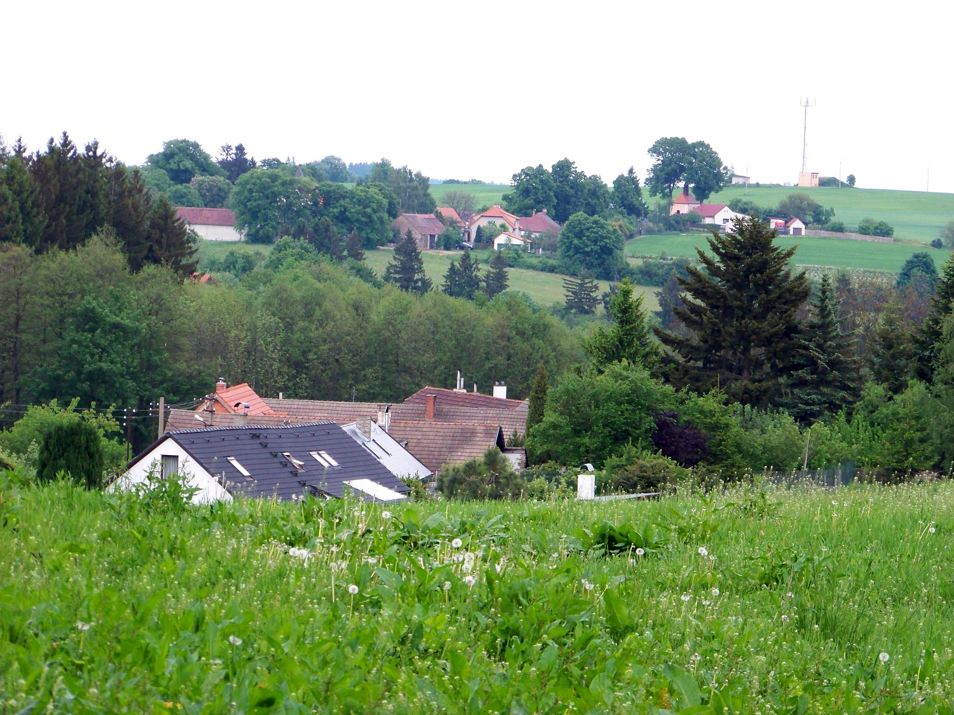 Střezimíř-Bonkovice and Střezimíř, Benešov District, Central Bohemian Region, the Czech Republic.